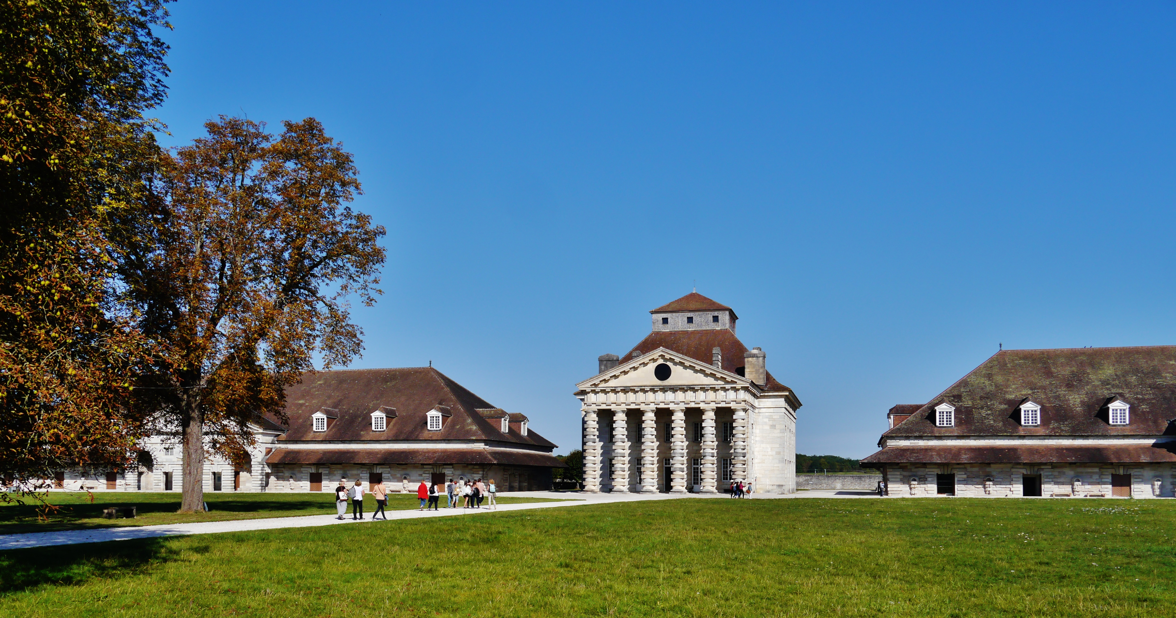 Royal Saltworks, Arc-et-Senans, Département of Doubs, Region of Franche-Comté (now Burgundy-Franche-Comté), France